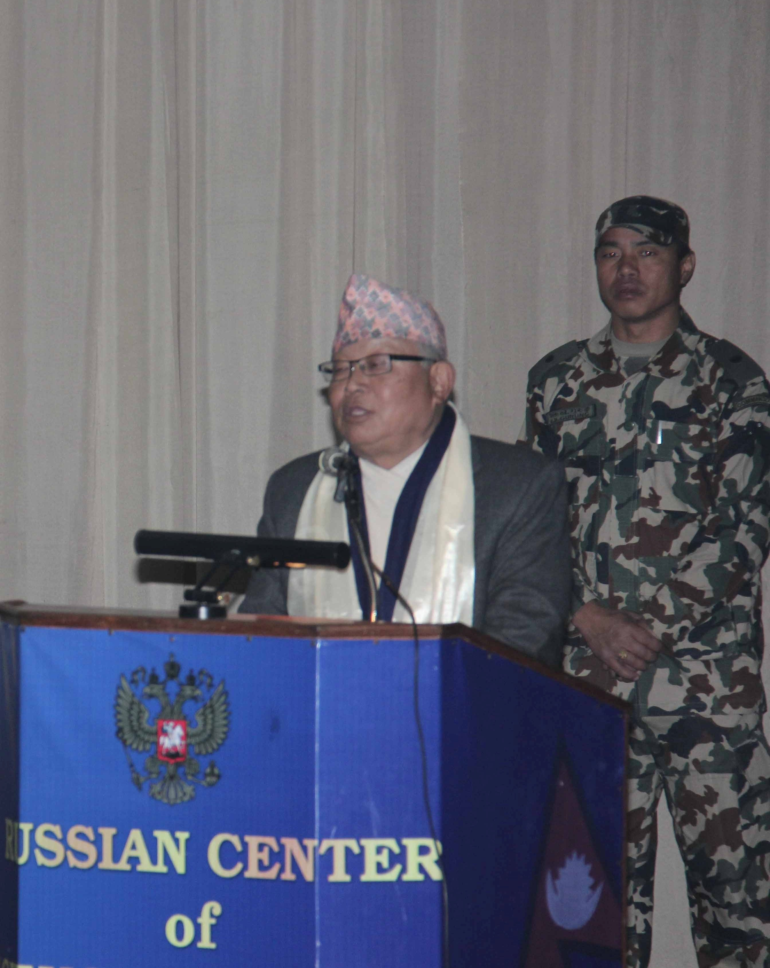 Nobal Kishor Rai is reknoned literary figure of Nepali Language